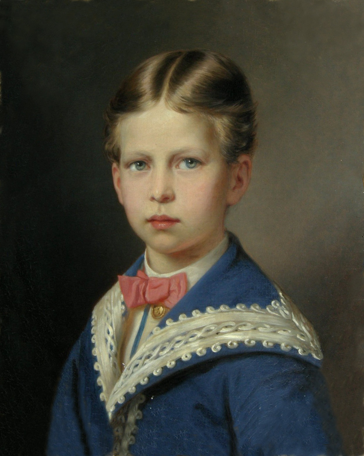 Prince Waldemar of Prussia (1868–1879)